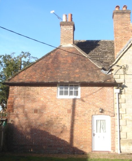 5 Langley Lane, Ifield. A 15th-century cottage which is now attached to the Ifield Friends Meeting House. South frontage is shown here. Listed at Grade II* by English Heritage (ref #363369).